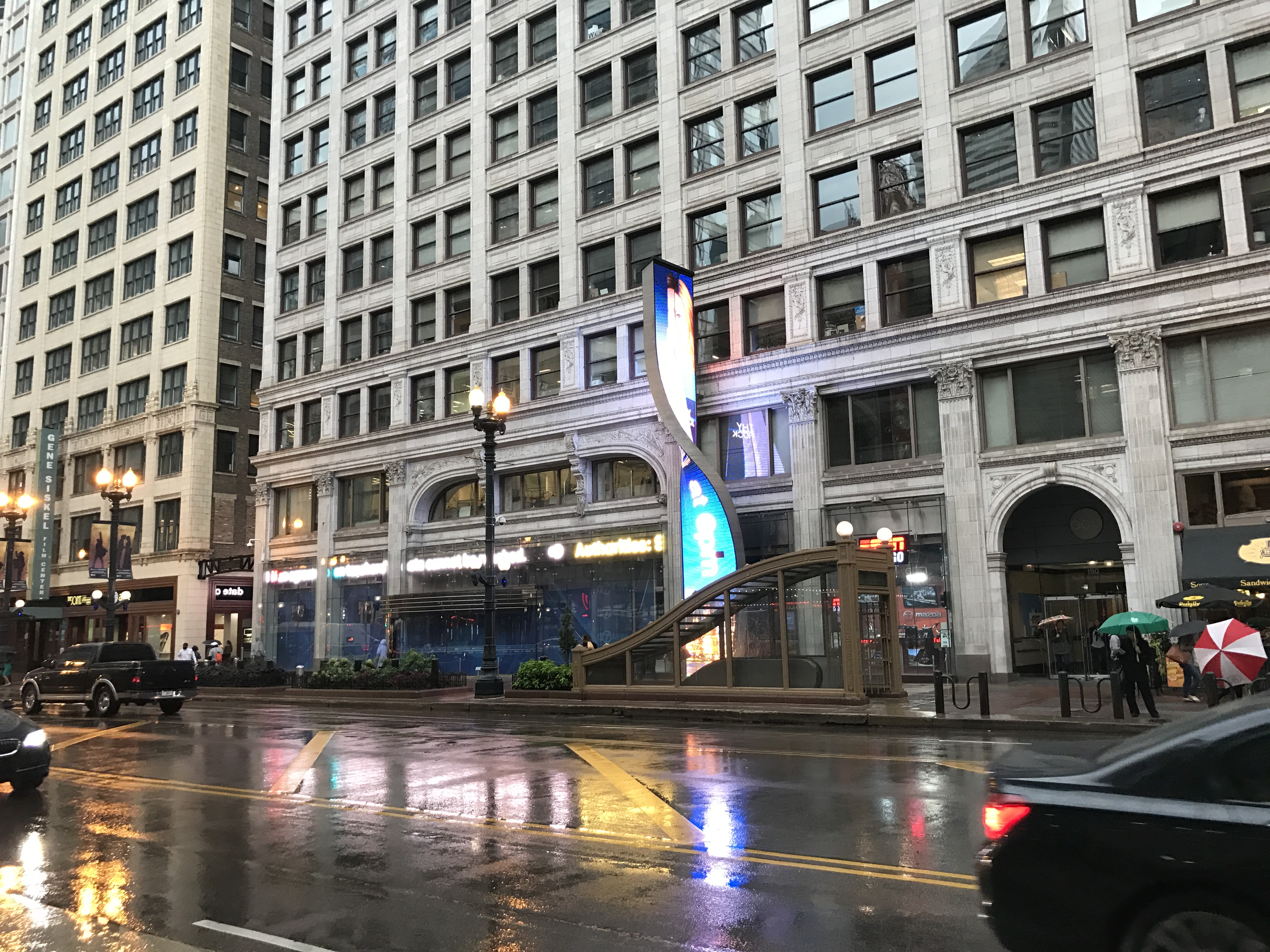 The studios of WLS-TV and WMVP Radio in Chicago, along with the Gene Siskel Film Center.